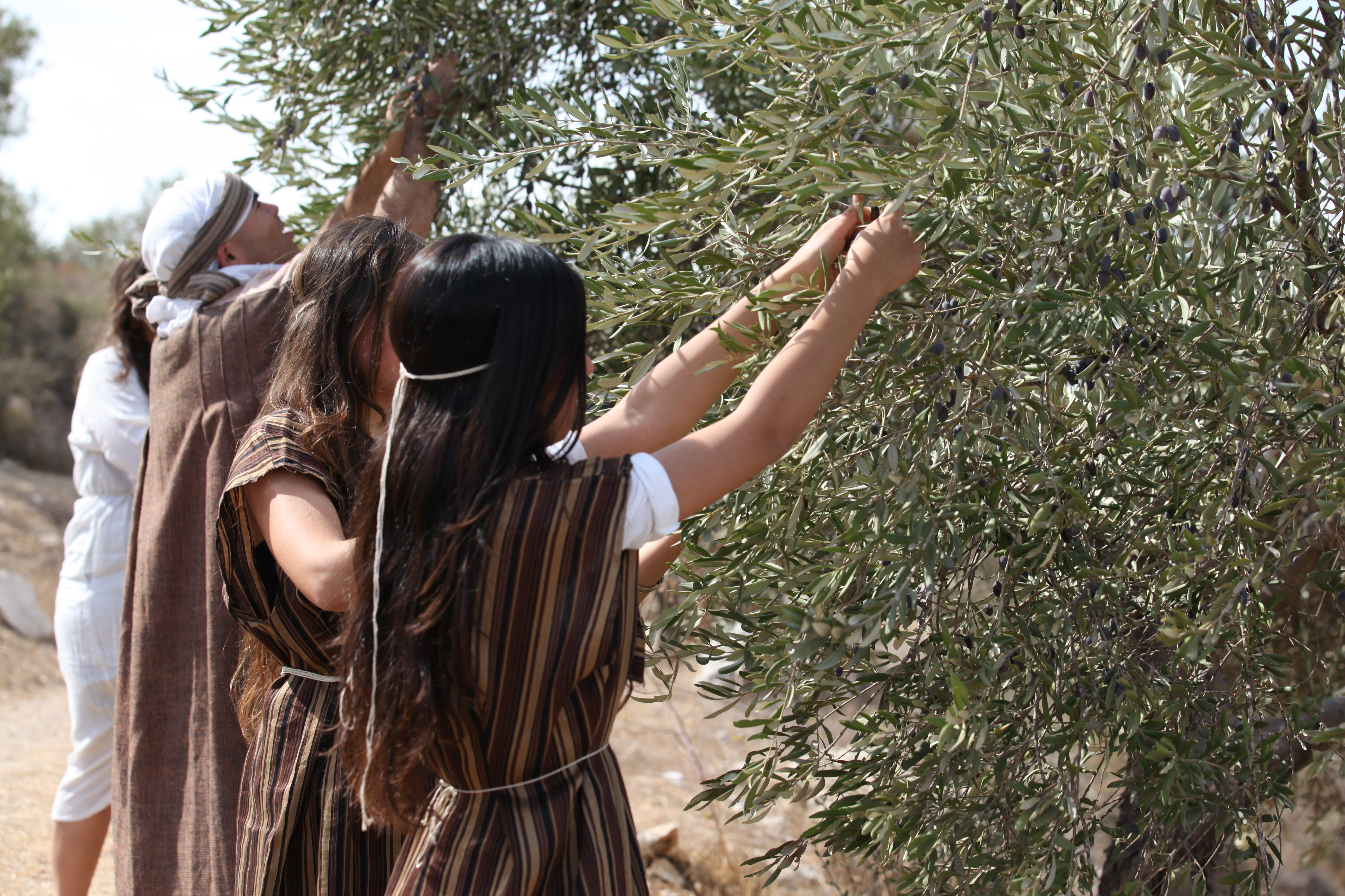 Olive Picking Israel